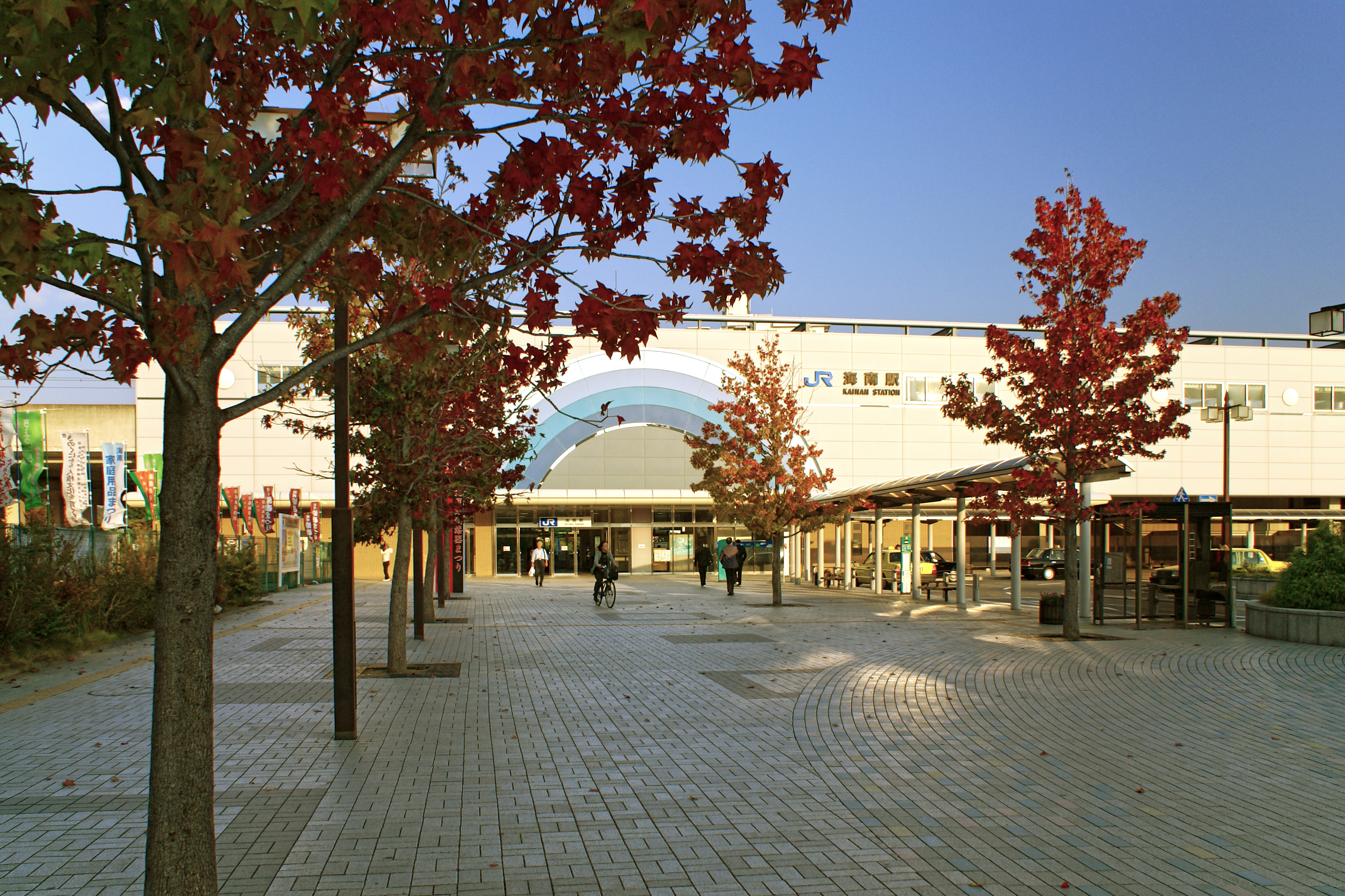 Kainan Station in Kainan, Wakayama prefecture, Japan